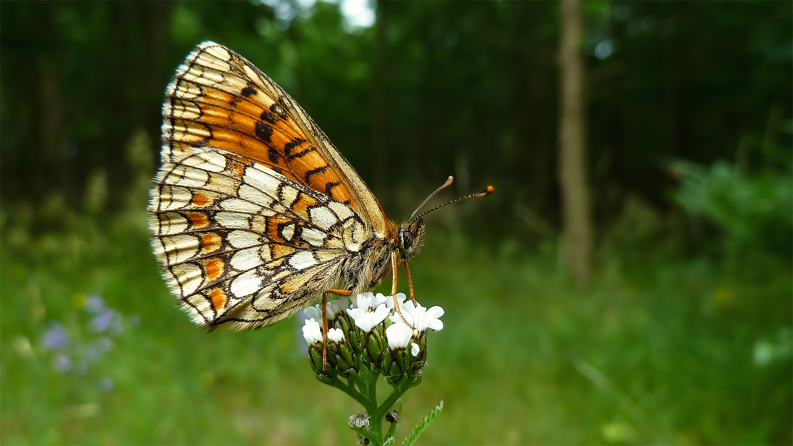 A Heath Fritillary (Melitaea athalia) on a Achillea.